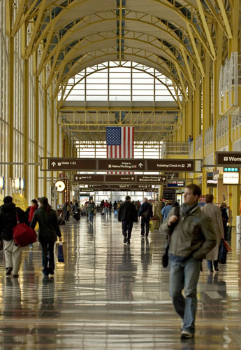 Terminal in National Airport